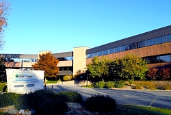 The Oneupweb Headquarters, located on Grand Traverse Bay in Traverse City, Michigan.